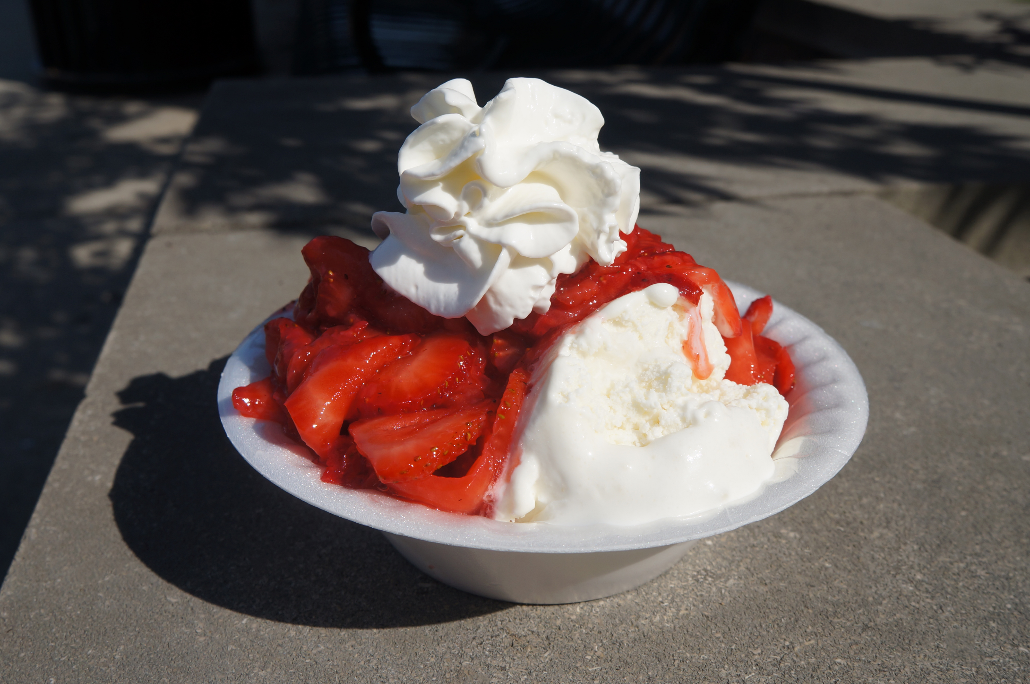 Strawberry Shortcake from Myrtle Lodge No. 89, F&AM during the Belleville National Strawberry Festival